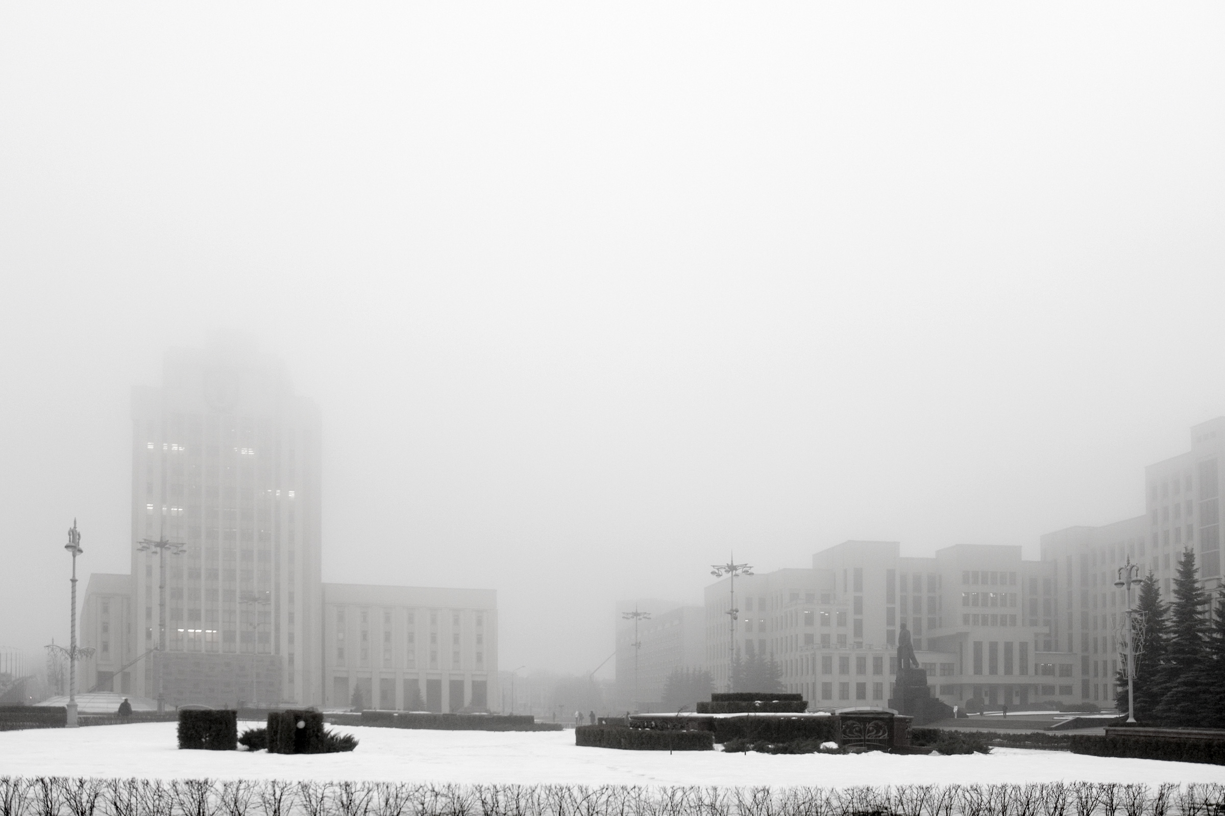 Independence square. Minsk, Belarus.